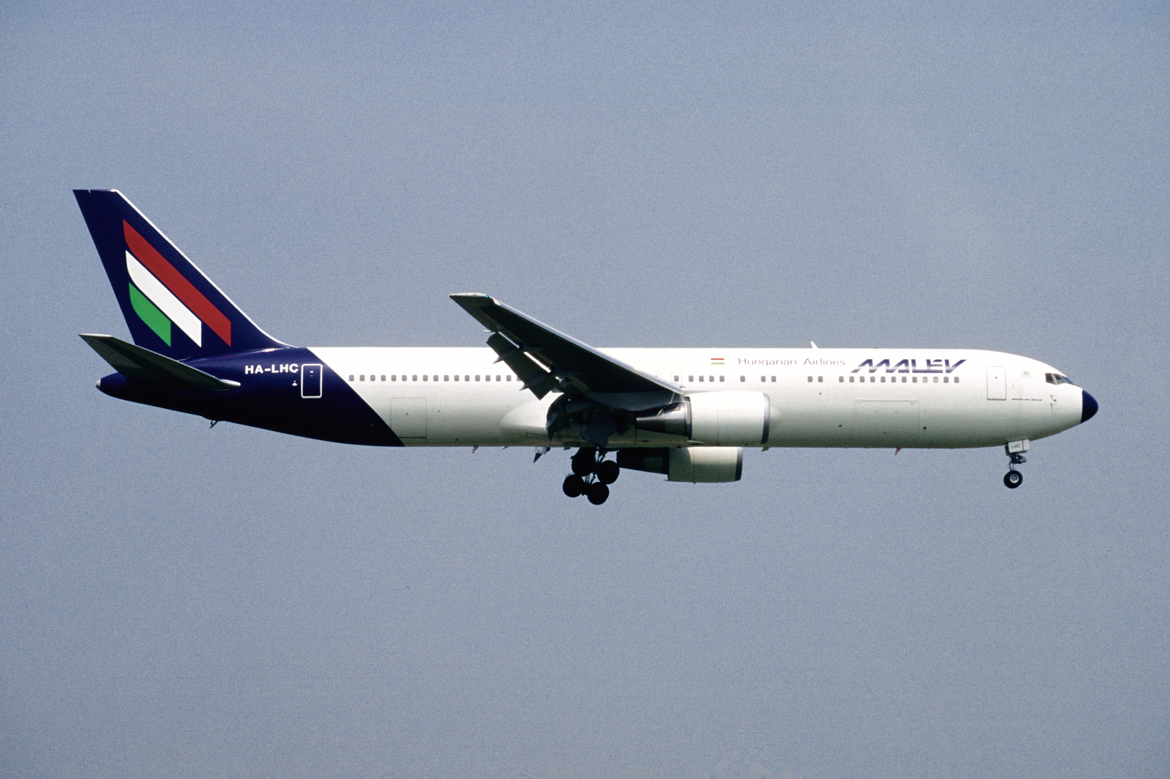 Old Pictures